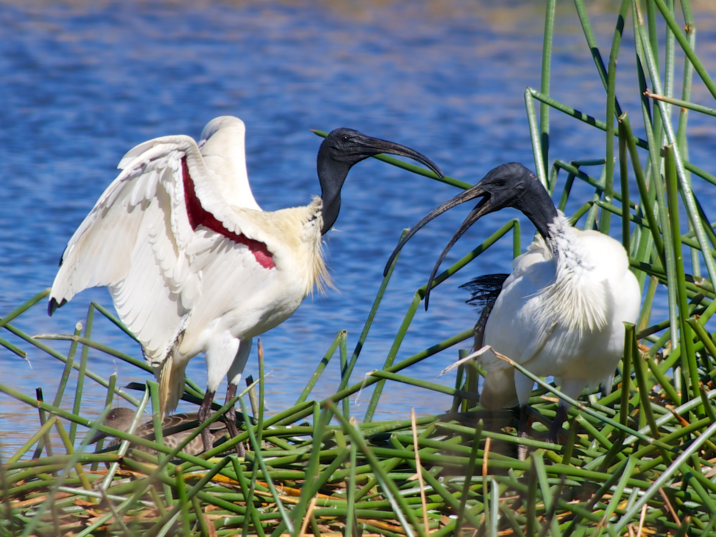 Australian White Ibis